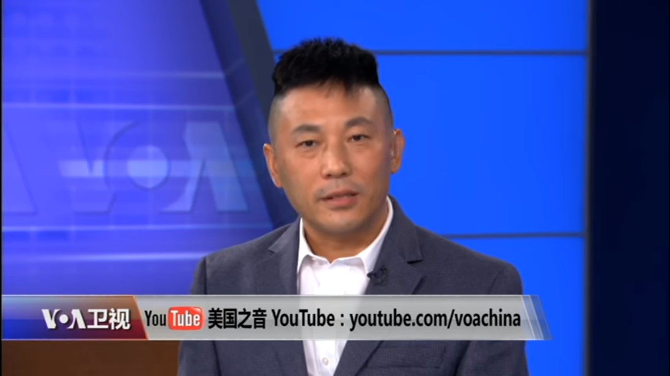 Li Hongkuan said on the Voice of America, Chinese desk on 25 July, 2017: "In fact, China has built the Internet as part of its construction since the Internet was built. It can be said that the Americans invented the Internet and the Chinese invented the net; the German Gutenberg invented the movable type printing, the Chinese..."